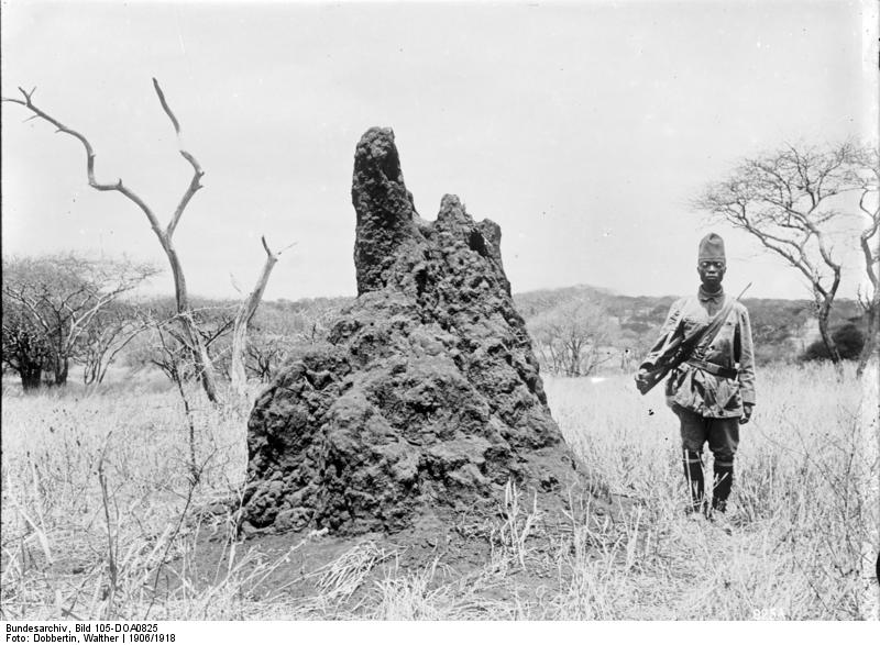 German East Africa, Termite mound